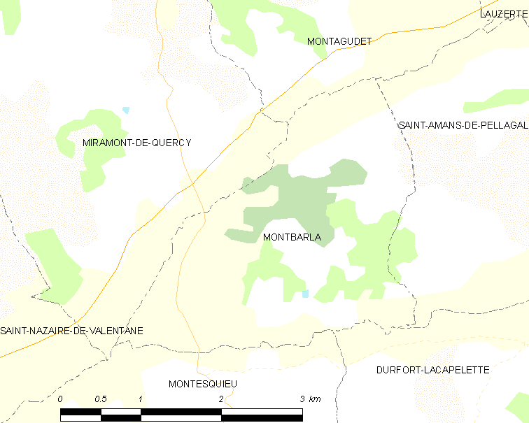 Map of French municipality Montbarla